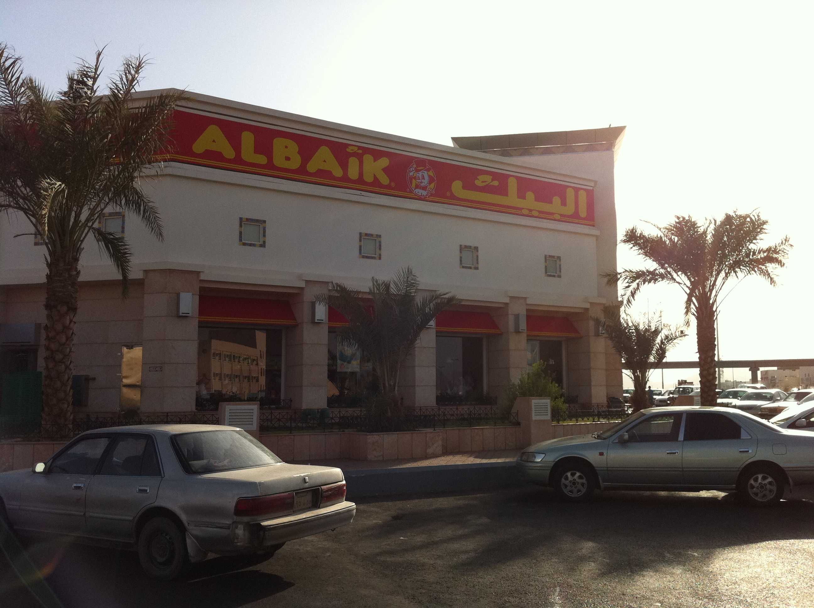 Fast food restaurants ALBAIK in Medinah